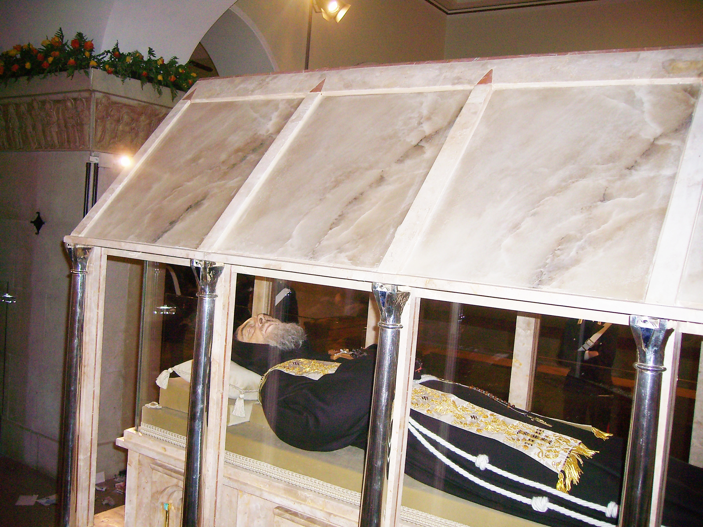 Body of Saint Pio da Pietrelcina. Due to its deterioration, his face is covered with a life-like silicone mask. Photo by Marcello Castigliego.